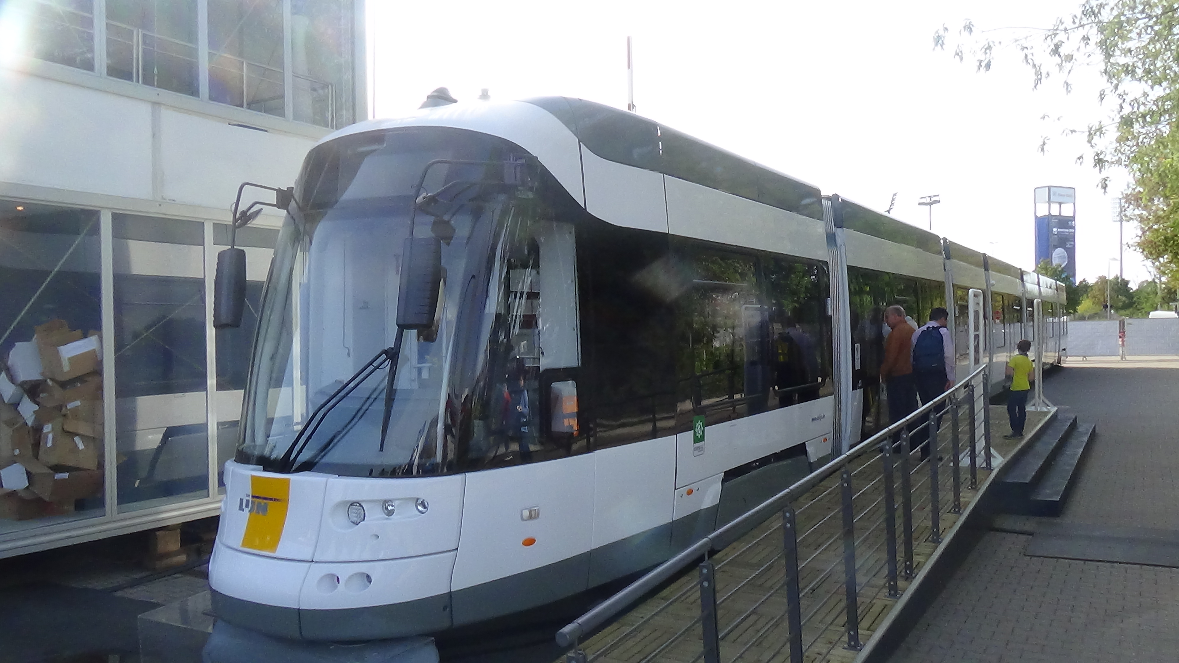 Bombardier Transportation GmbH Flexity 2 DeLijn